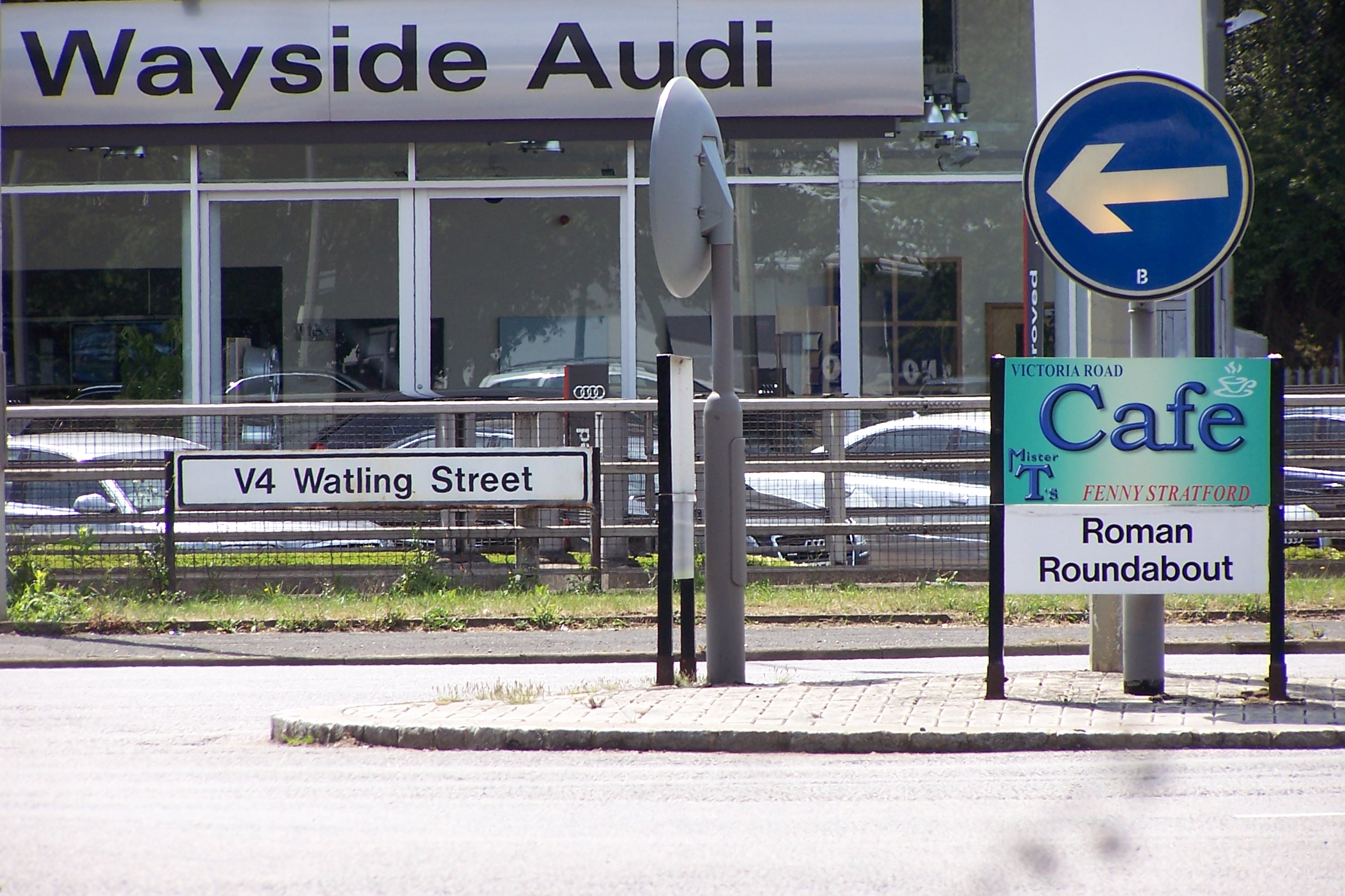 Watling Street, an old Roman Road (now A5) and the "Roman Roundabout" in Bletchley, Milton Keynes